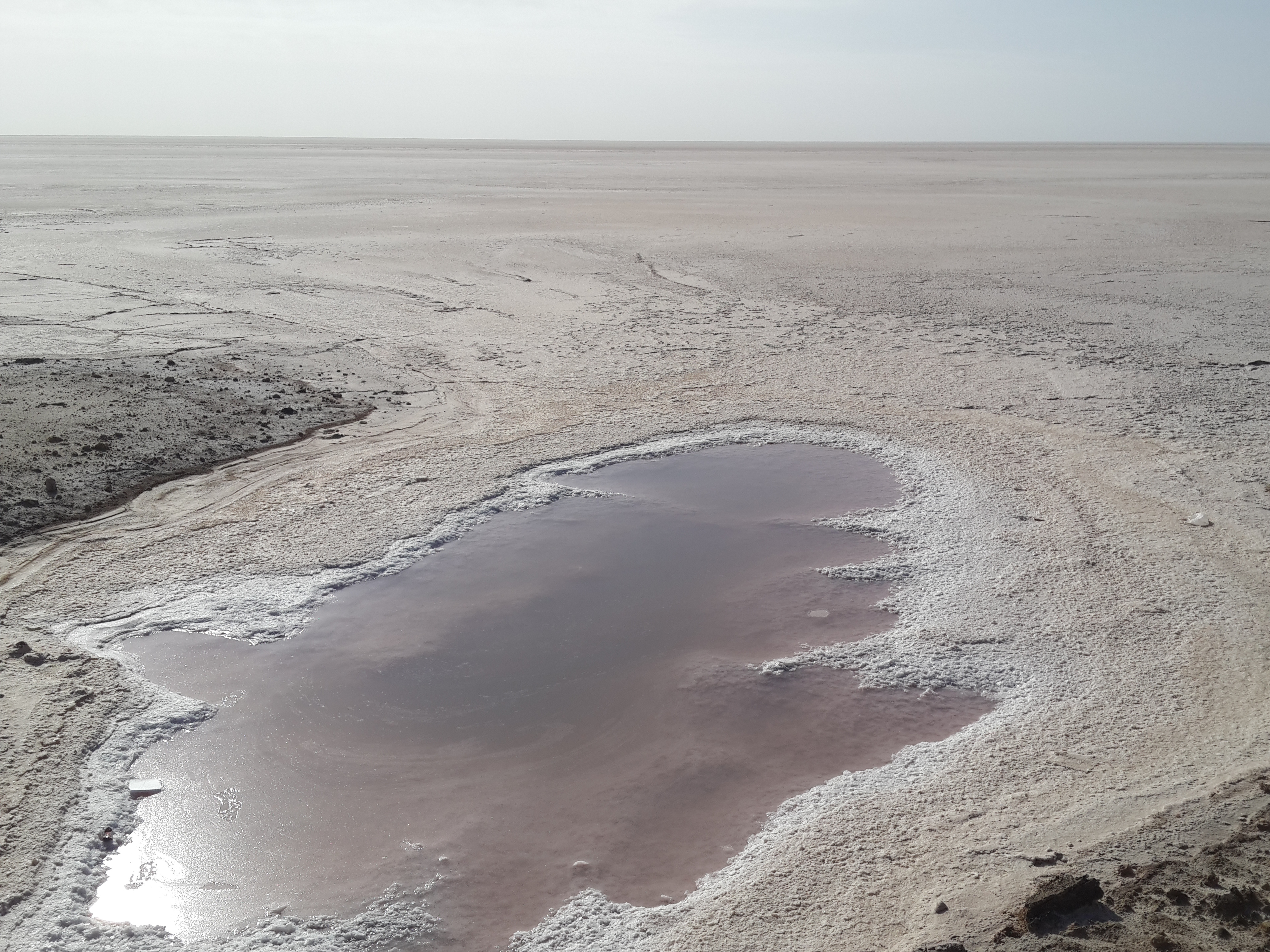 Chott Djerid